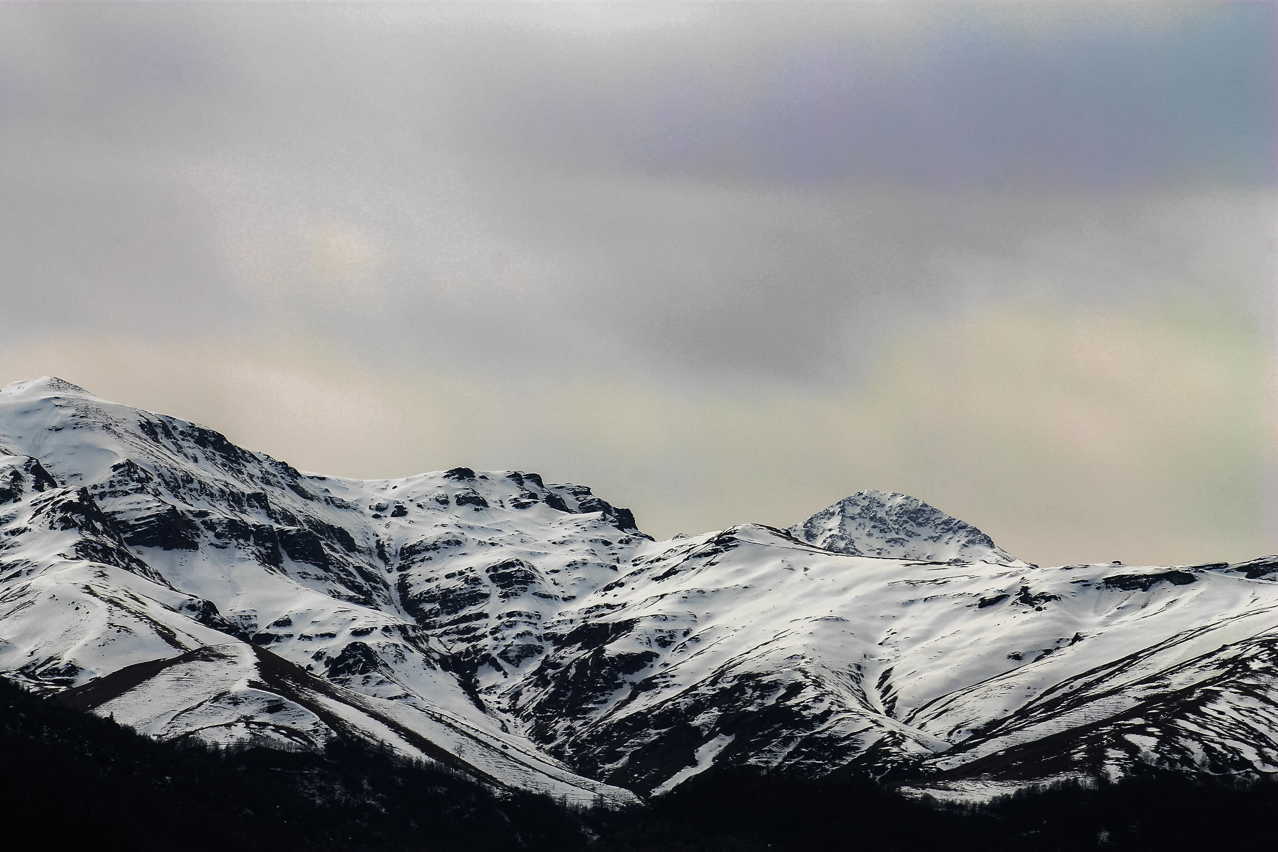 Göygöl National Park Murovdag snowy mountains